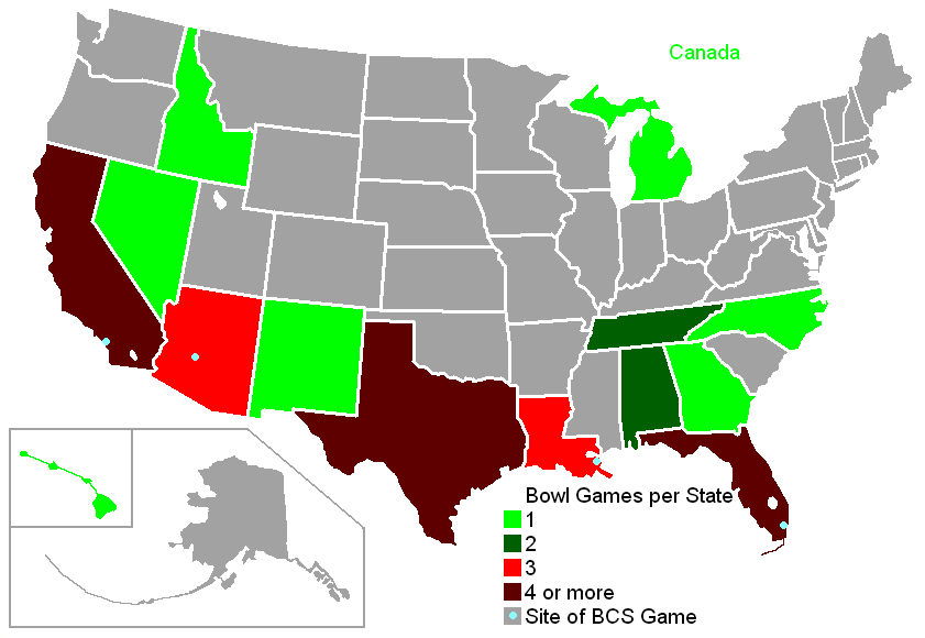 derived from [1]; map of states with 2006-07 NCAA football bowl games schools (and their division) "I don't know how to edit the map but I assume that someone will notice this comment. Louisiana has 4 bowls this year, The New Orleans, the Independence, the Sugar and the BCS National Championship game (2008). And Arizona only has two Fiesta and Insight" Response: "The map is based on 2006, when the national title game was played in Arizona, rather than Louisiana."